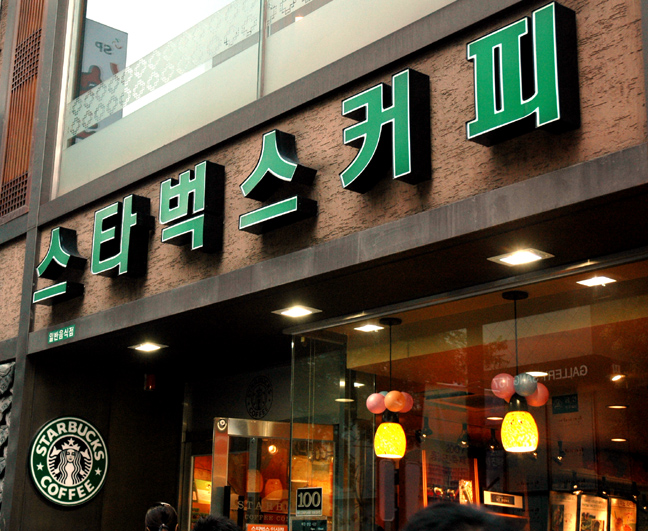 Starbucks in Seoul. It is one of the few Starbucks signs written in korean characters.